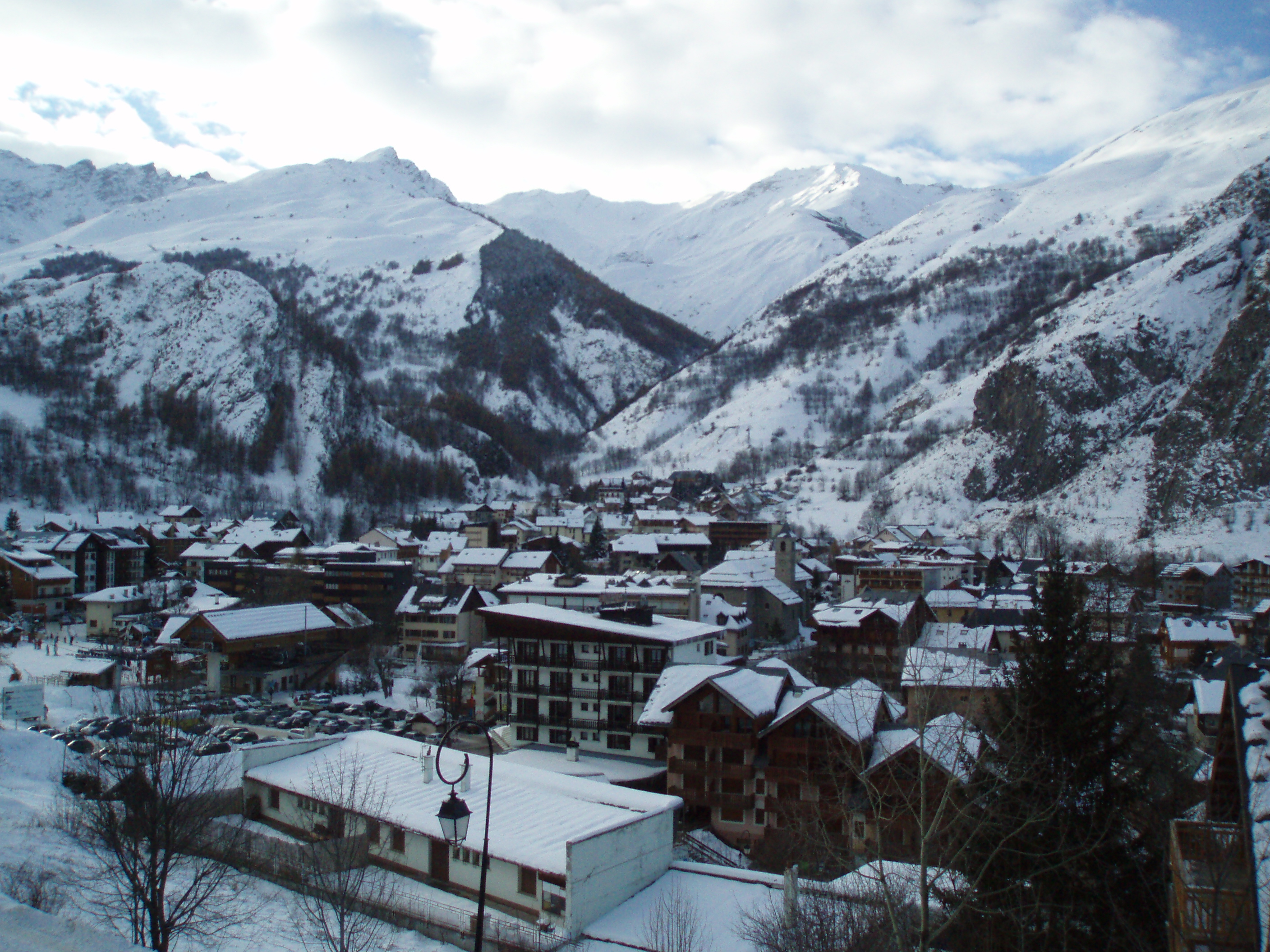 The mountains of massif La Setaz, and le massif du Crey Du Quart, with the village of valloire included. Valloire is located in Southeastern France. Taken by me.